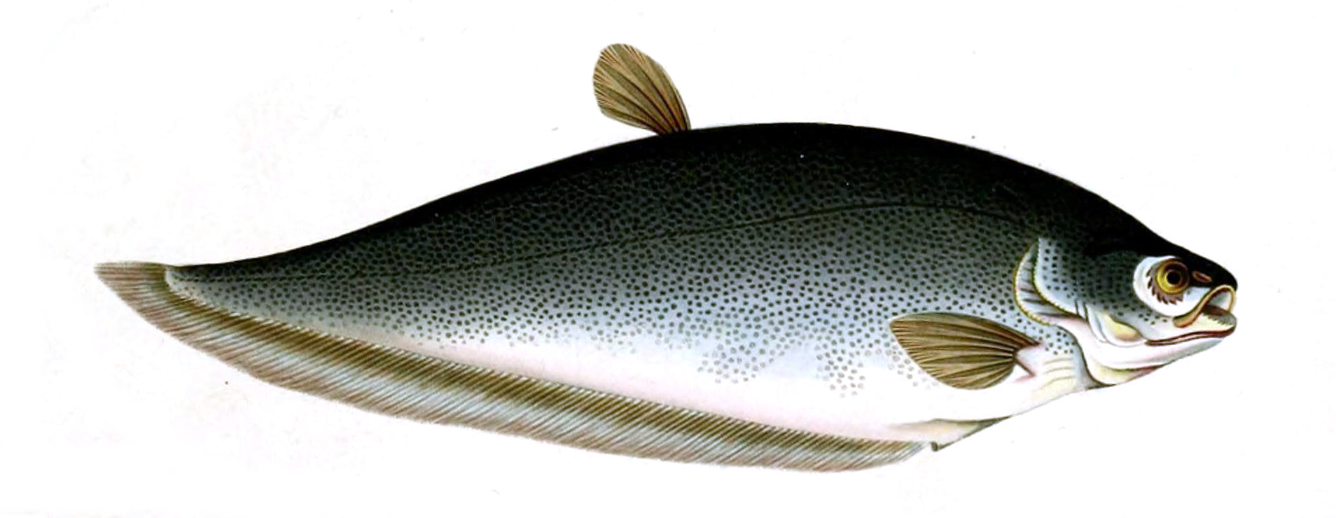 Mystus badgee = Notopterus notopterus